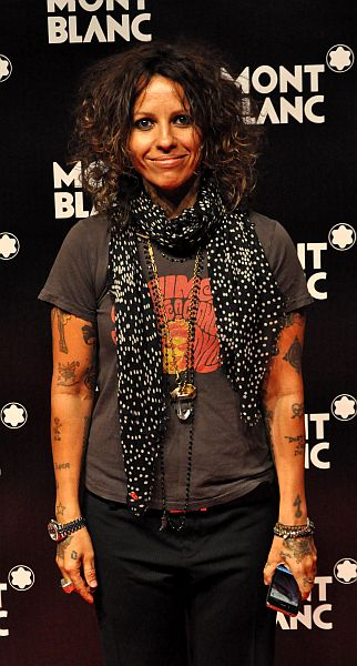 Songwriter Linda Perry attends "To John - With Peace & Love" Global Launch Of The Montblanc John Lennon Edition on September 12, 2010 at Jazz at Lincoln Center in New York City. (Photo © Nick Stepowyj)